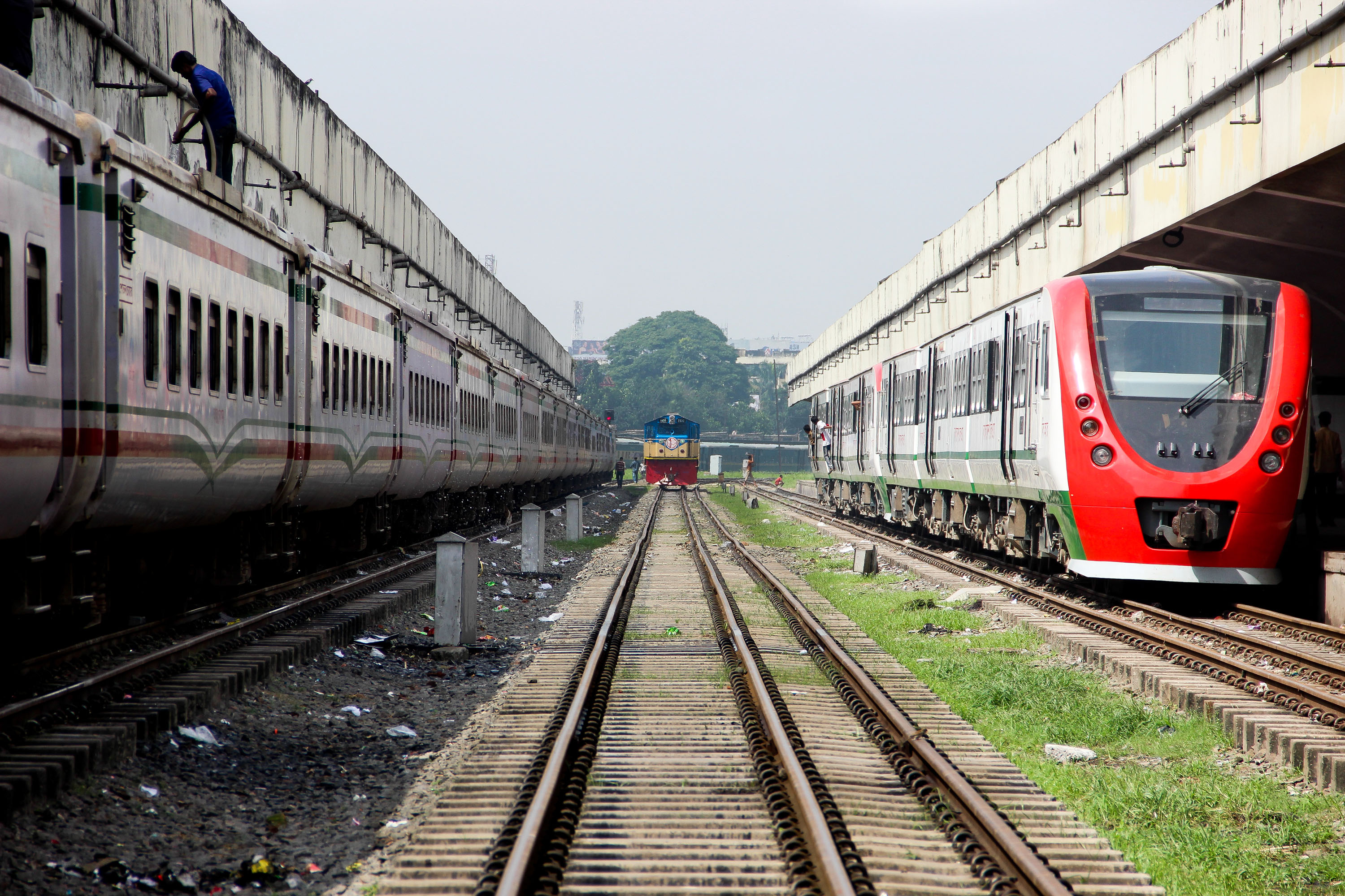 Bangladesh Railway, Komlapur Railway Station